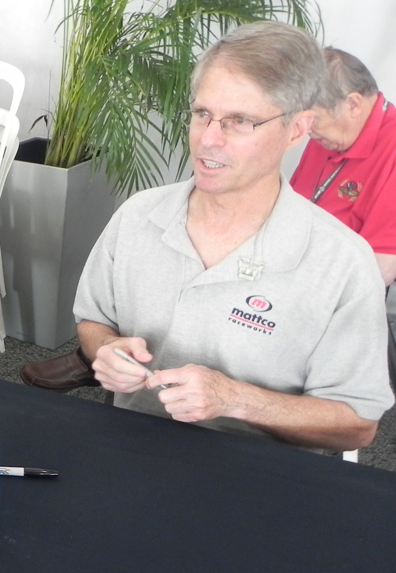 Indy500 driver Pete Halsmer at the 2014 Indianapolis 500.